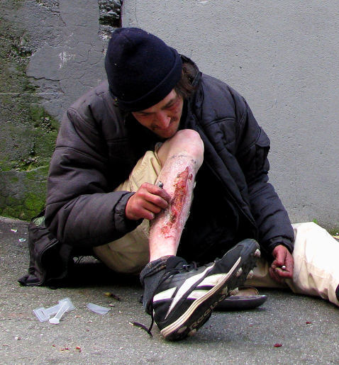 Steph, polite and friendly, picking at his open sores, and occasionally taking a hit of crack cocaine vapours, in a downtown eastside alleyway, in Vancouver BC Canada.